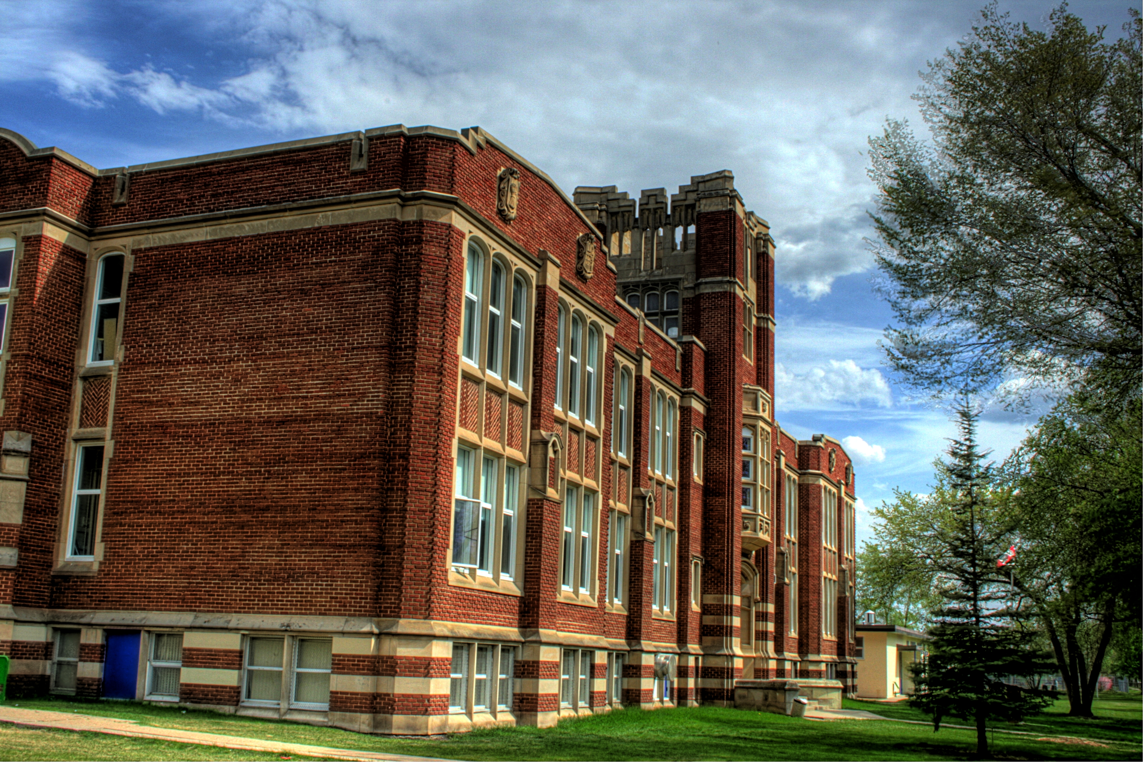 Highlands Junior High School in Edmonton, Alberta, Canada.